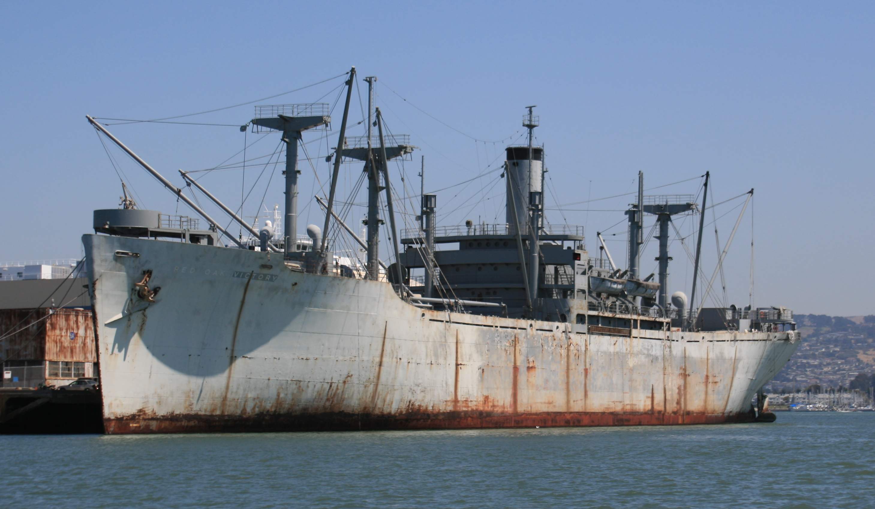 Victory Ship "Red Oak Victory", Richmond, California, clip of original